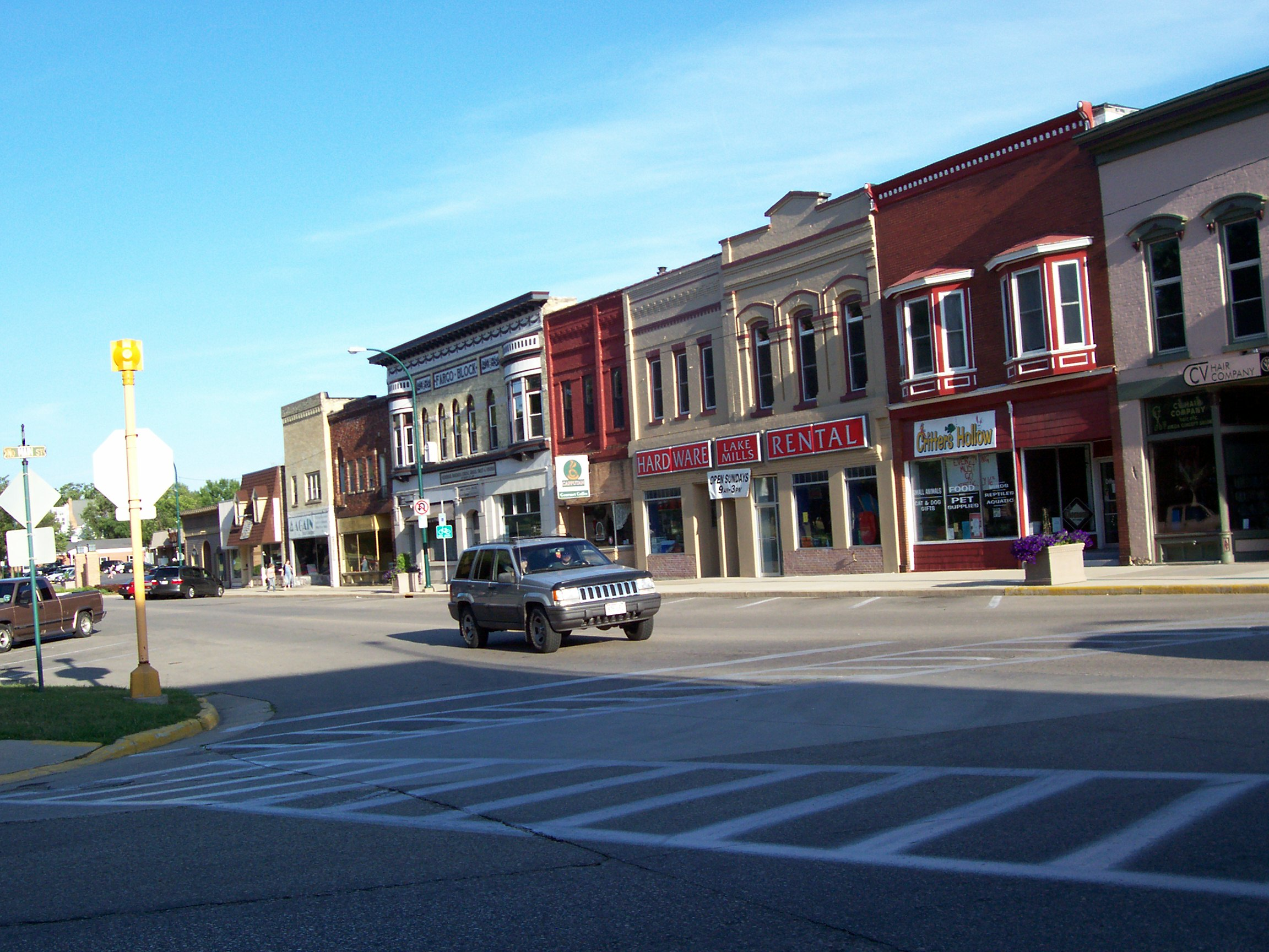 Looking east on lake street in downtown LakeMills, Wisconsin